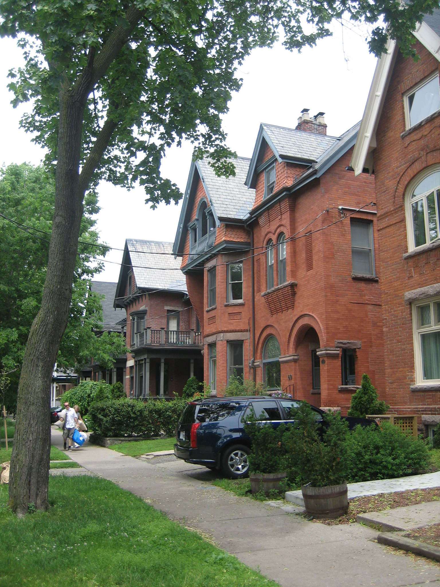 Houses in The Annex